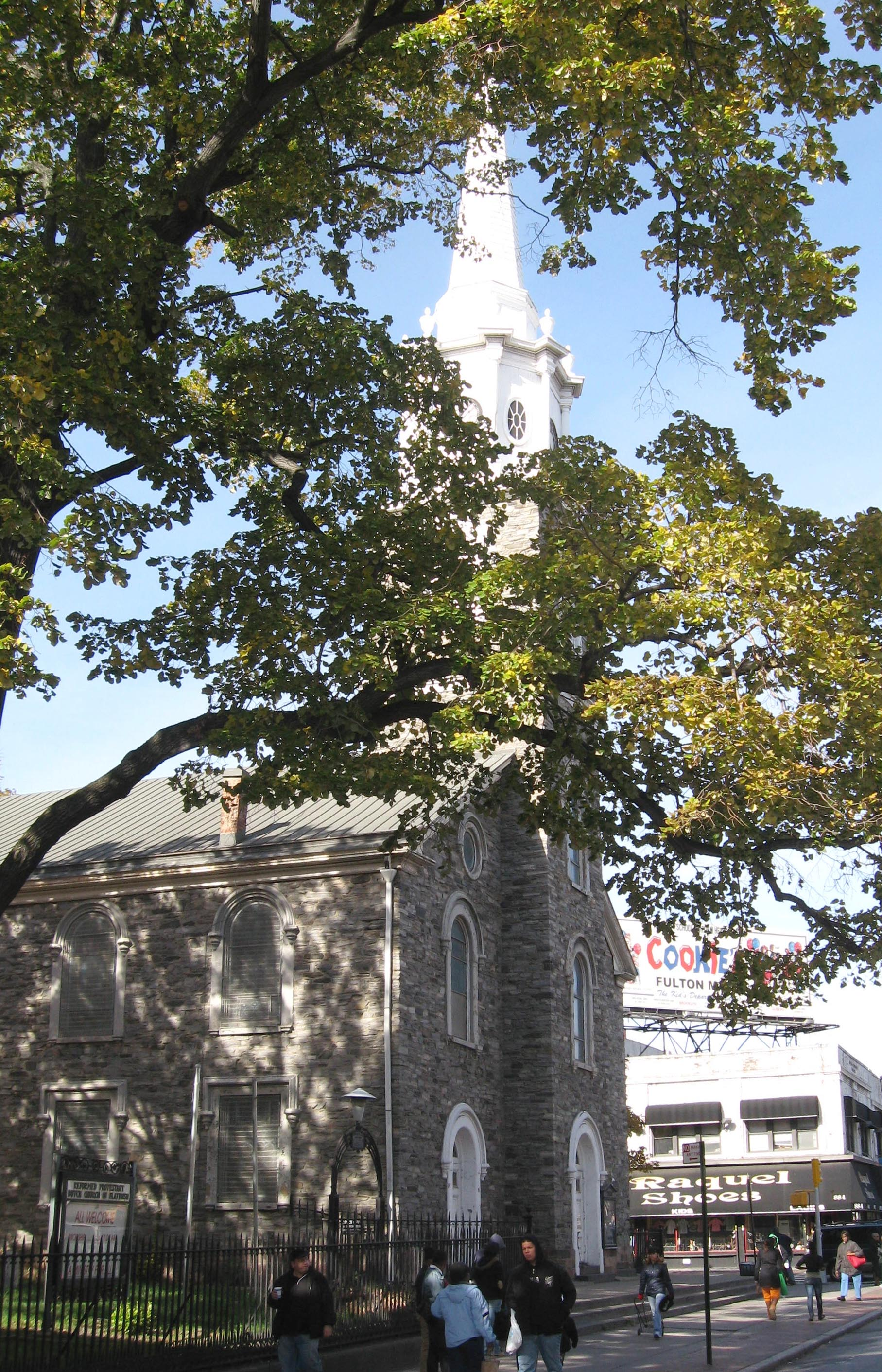 Looking northwest at Reformed Protestant Dutch Church of Flatbush, Brooklyn on a sunny midday. See also Image:RPDC Flatbush cem jeh.JPG for cemetery in back.